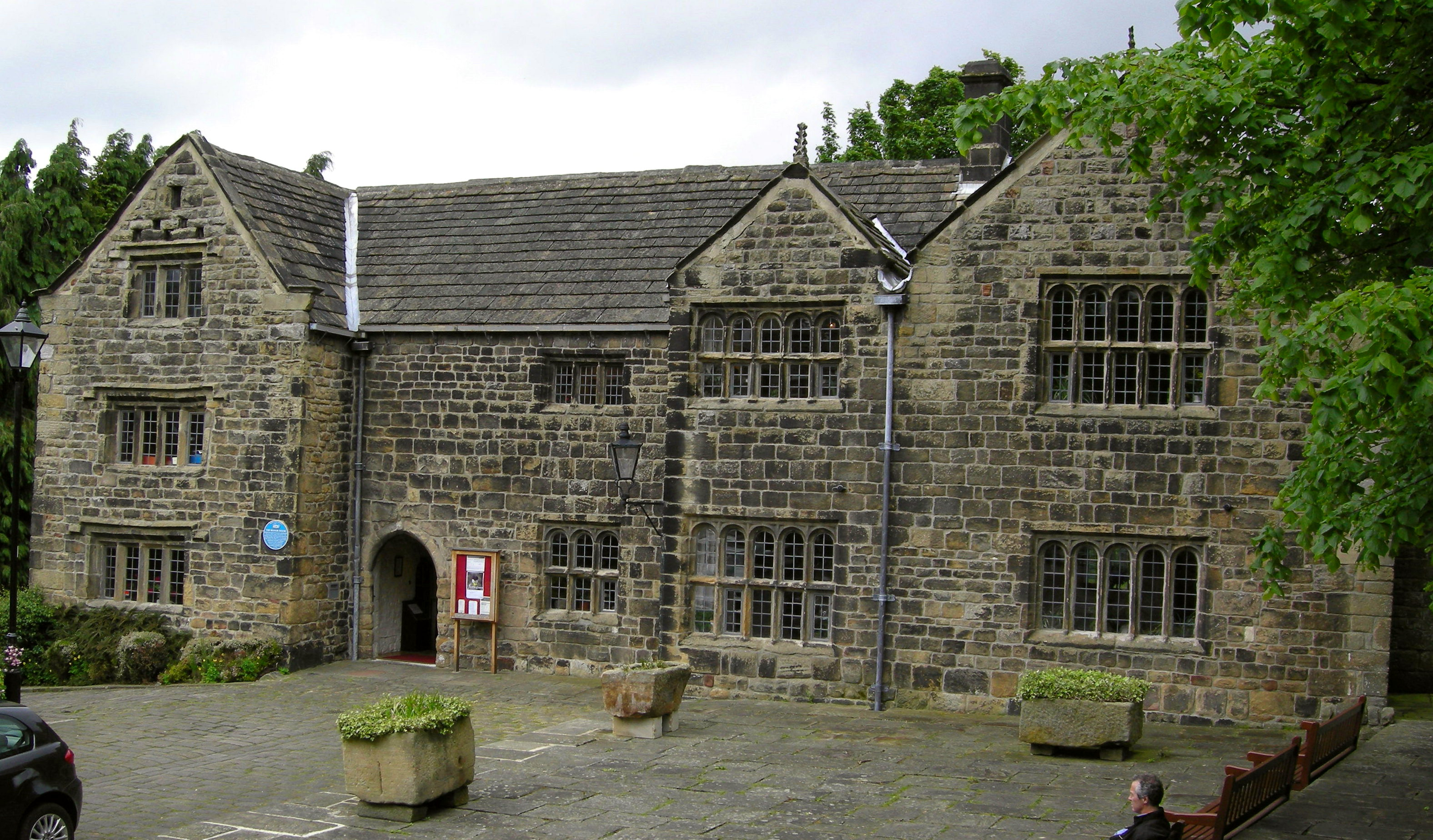 Manor House Museum, Ilkley, England